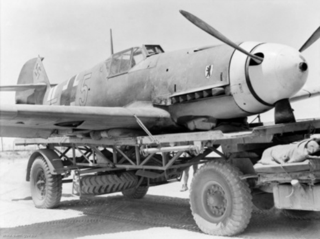 Western Desert, Egypt, 14 August 1942: A captured German Messerschmitt Me 109F ("yellow 5") of 6/JG27 (6th Squadron, 27th Fighter Wing) piloted by Lieutenant Gert Mix which made a forced landing in the rear of the Australian lines near El Alamein is loaded on to a transport to be taken to RAF workashops for examination by experts. Other German planes had tried to destroy this plane after landing in order to prevent expert examination.